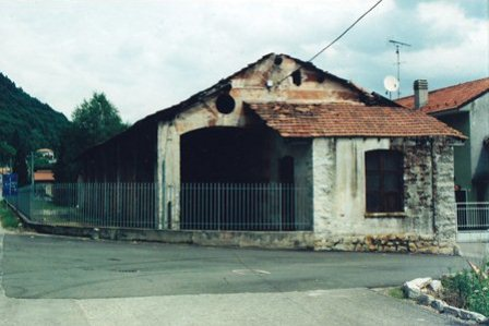 Alzo railway station remains